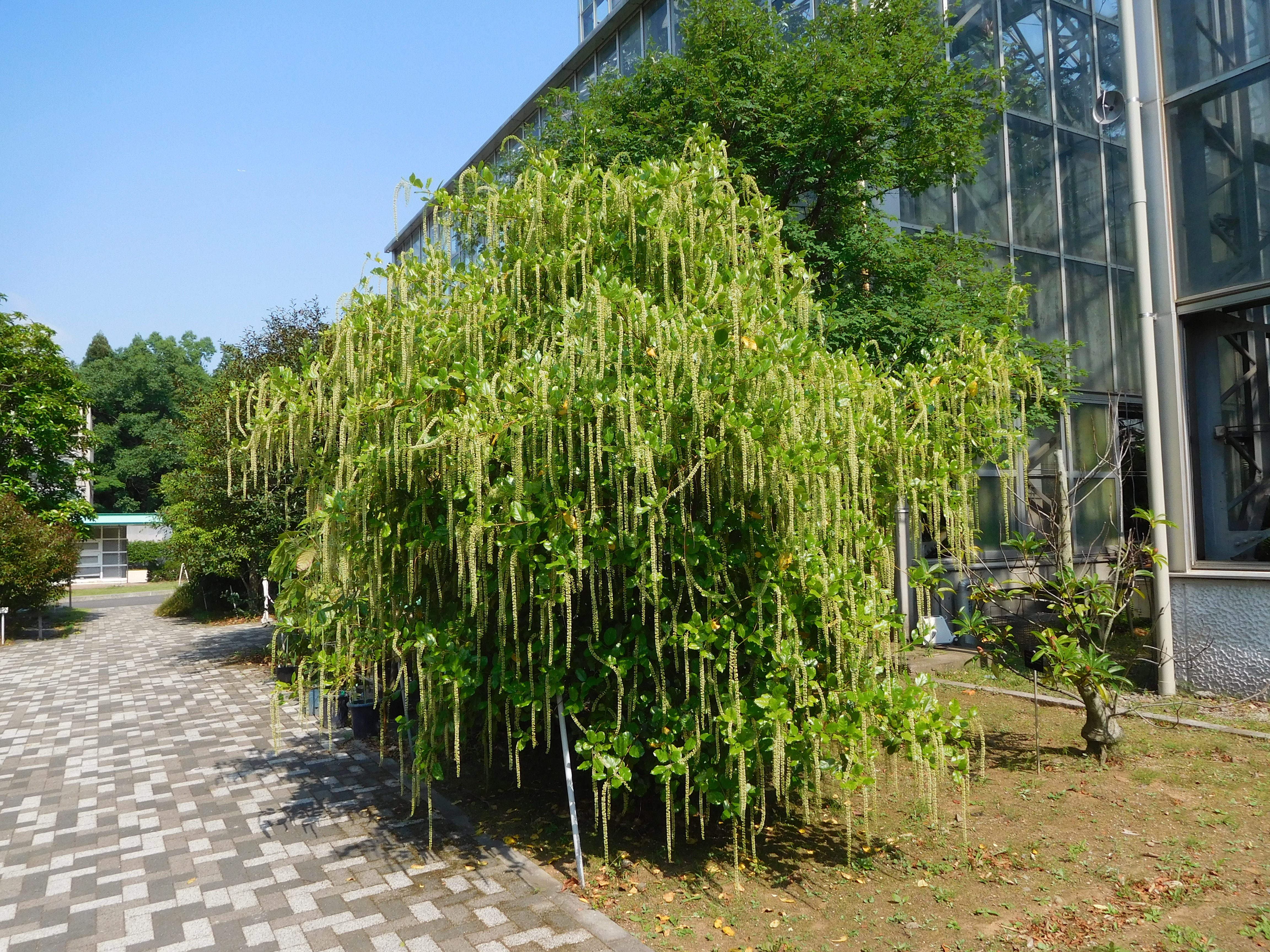 This is Itea ilicifolia in Tsukuba Botanical Garden, Tsukuba, Ibaraki, Japan.